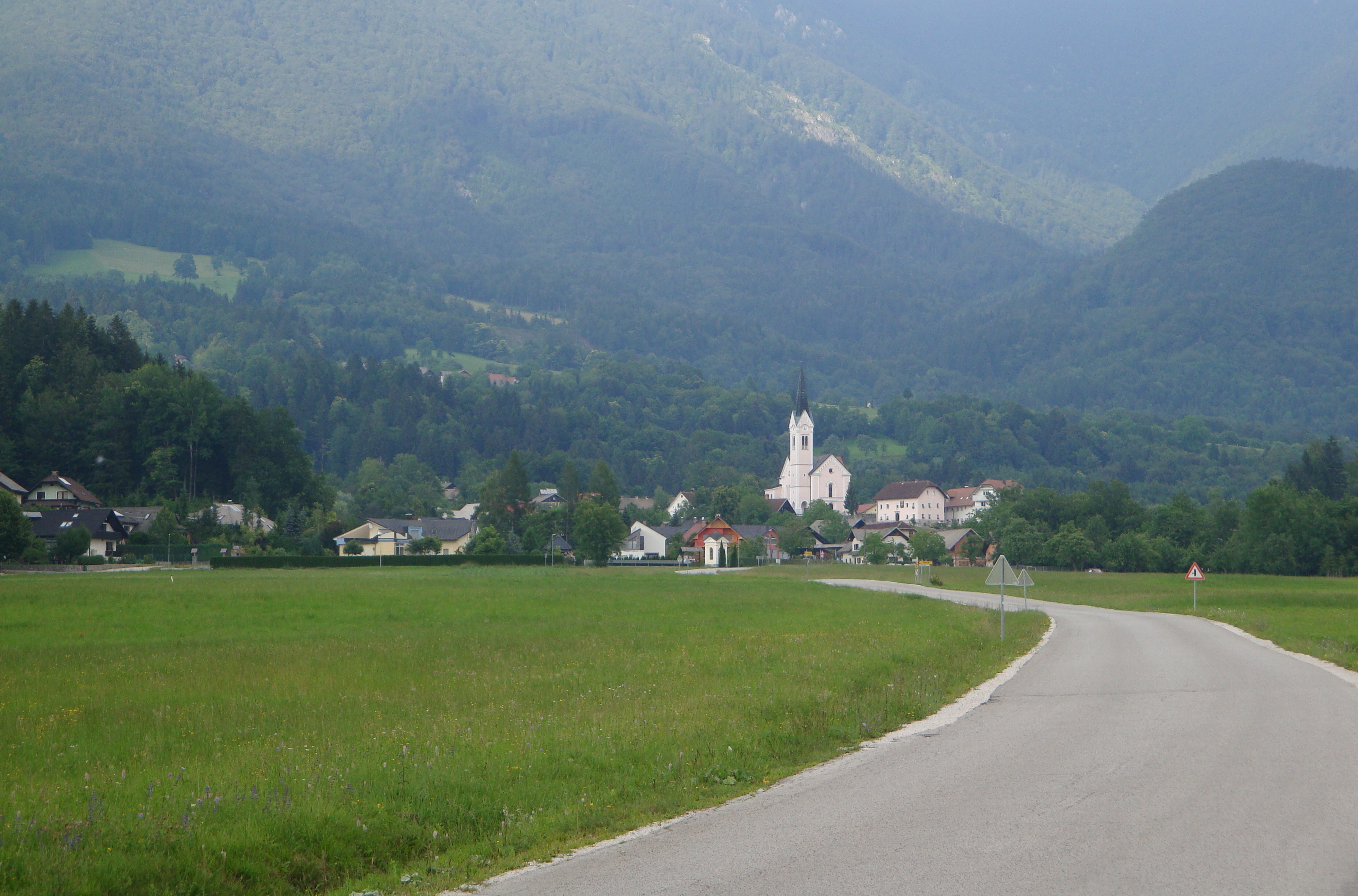 Trstenik, Slovenia